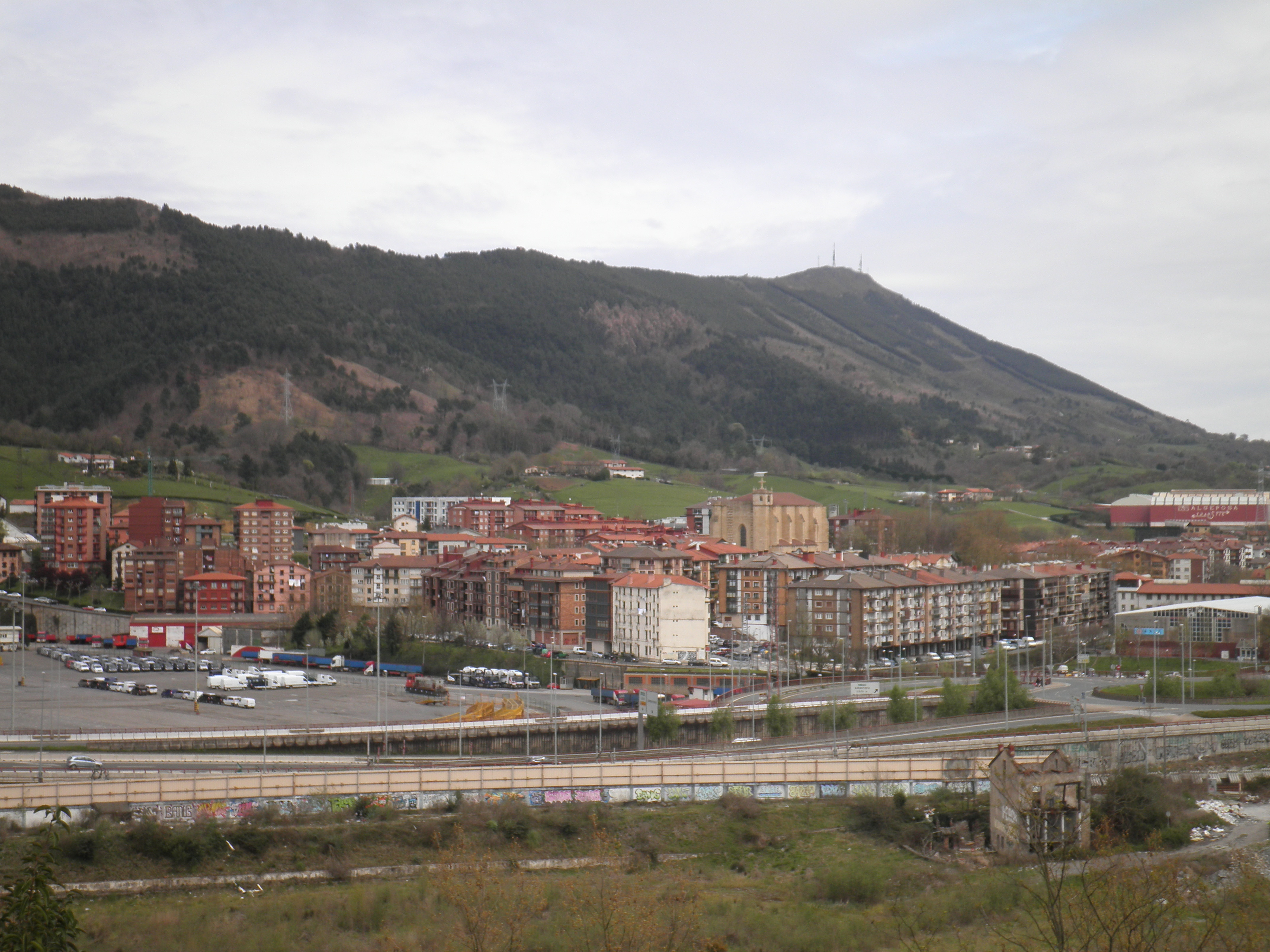 Lezo from Renteria. Basque Country.